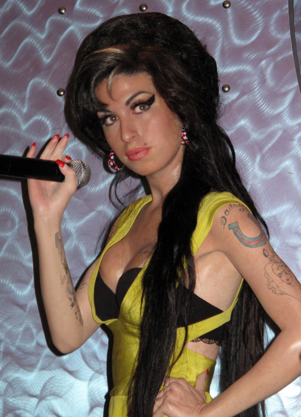 Amy Winehouse at Madame Tussauds.